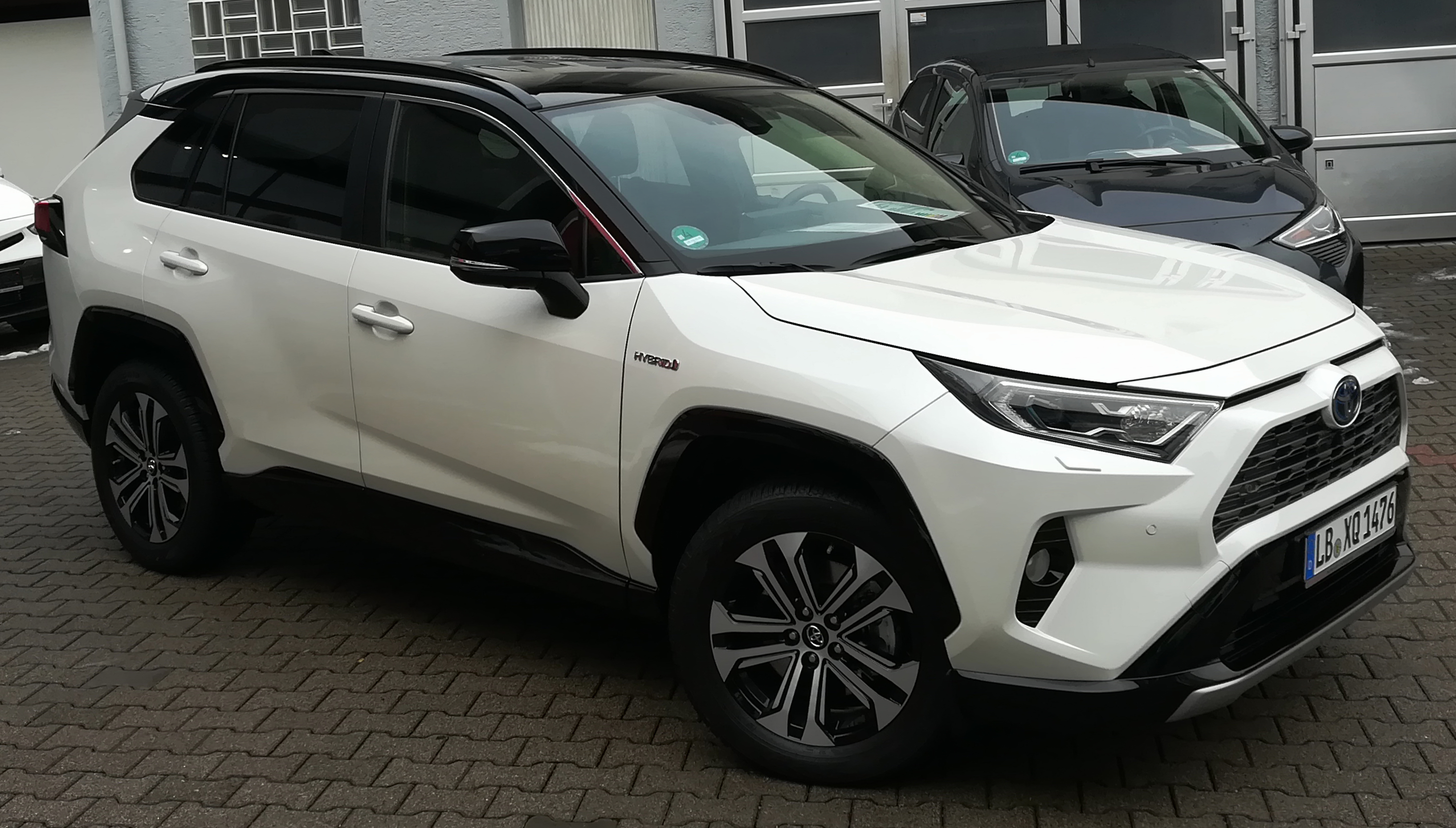 Toyota RAV4 Hybrid in Ludwigsburg, Germany, January 2019